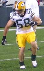 Photo by DK Ben Taylor (American football) #58, cropped by User:Royalbroil from Image:GreenBayPackers2006AJHawkBenTaylor.jpg source imageBefore game